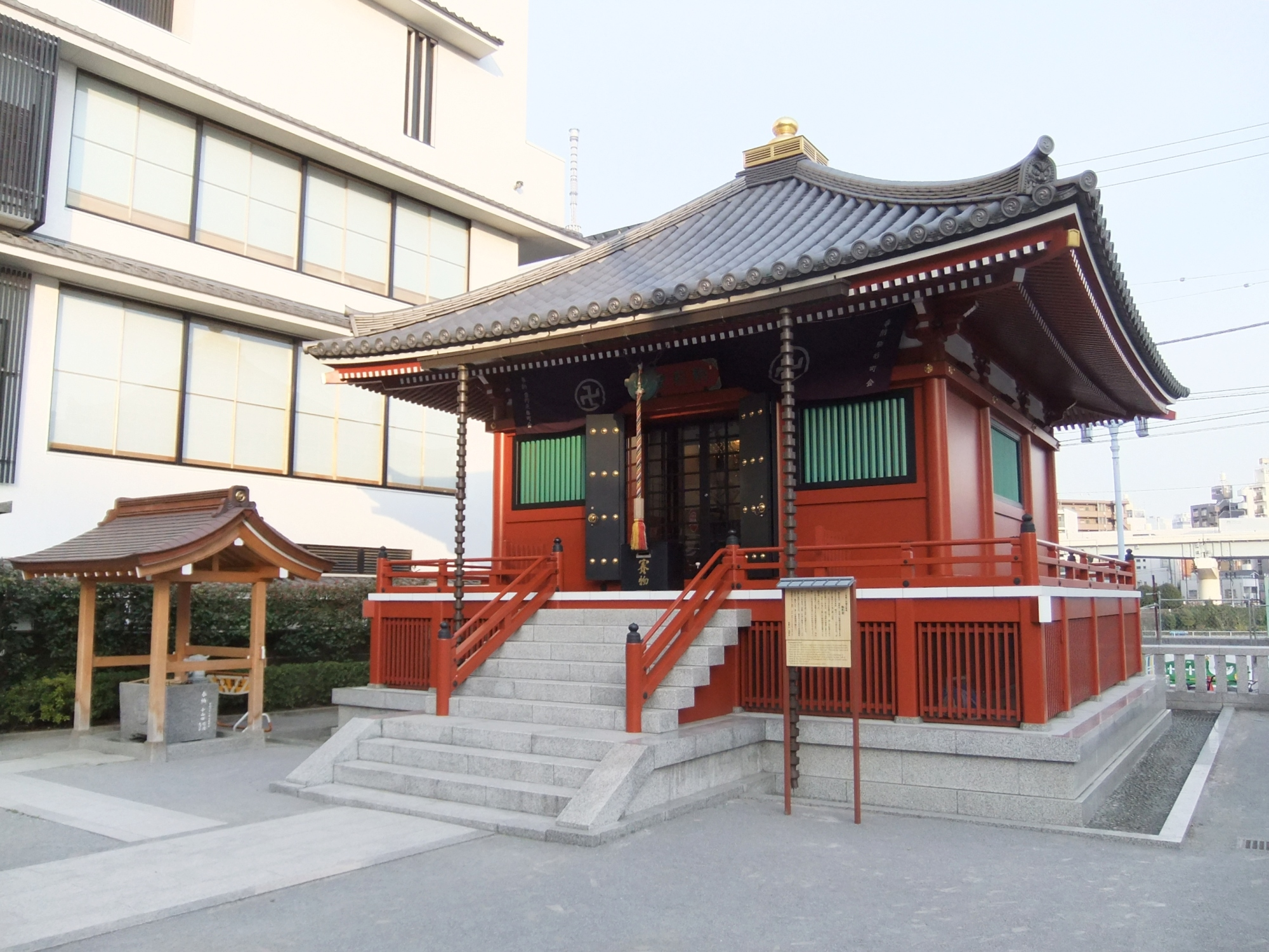 Komagata-dō Hall of Sensō-ji Temple